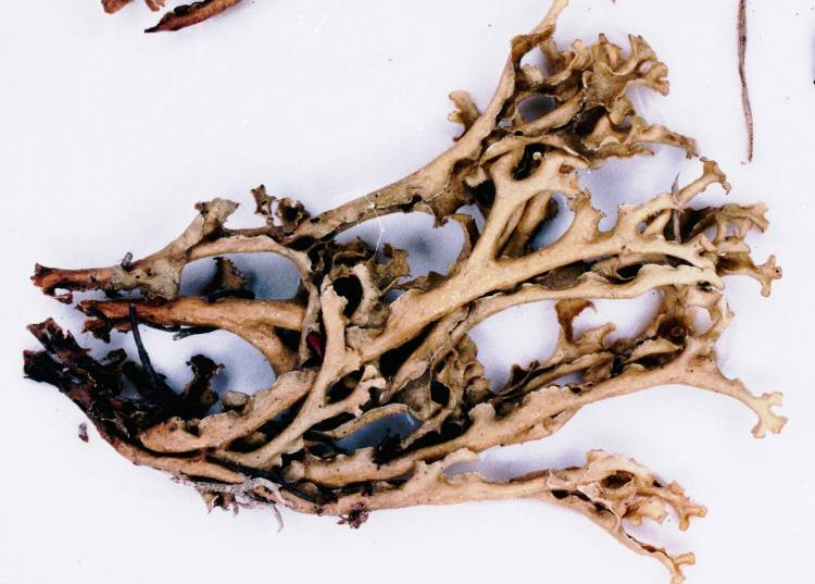 Flavocetraria cucullata (Bellardi) Kärnefelt & Thell (herbarium specimen from Elmer G. Worthley's personal herbarium); labeled "Ex Museum botan. Univ. Lundensis/Lichenes Suecici/Scania. Hofterup: Lundåkra./1894/ Leg. N.Alvthin". This specimen is in the Lichen Herbarium of the New York Botanical Garden.